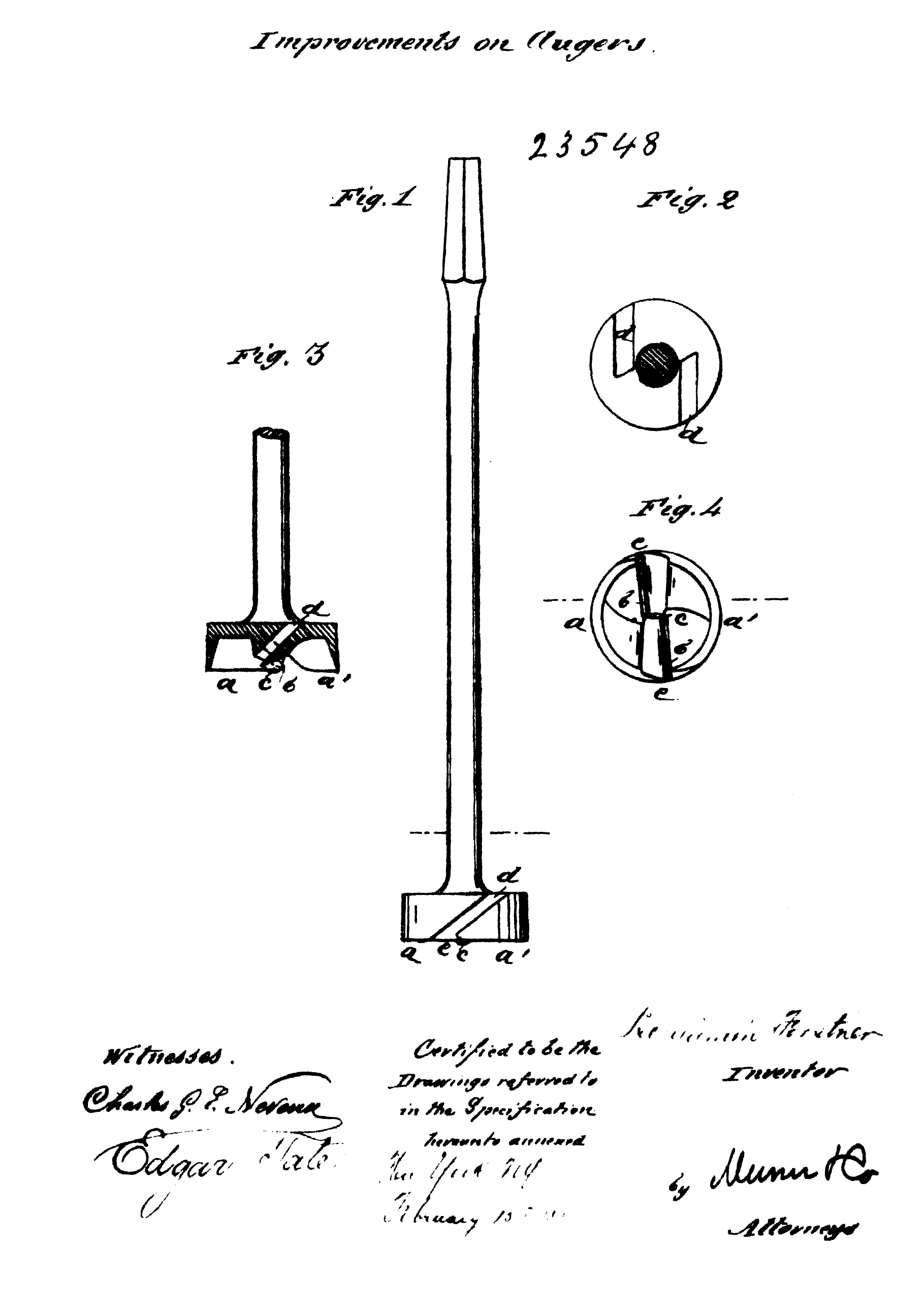 Page of patent patent CA23548.